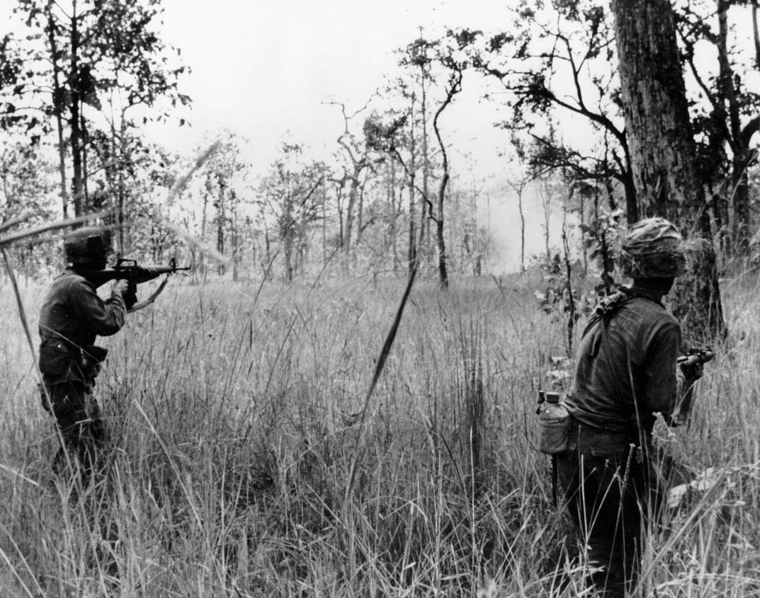 Battle of Ia Drang Valley LZ X-Ray.